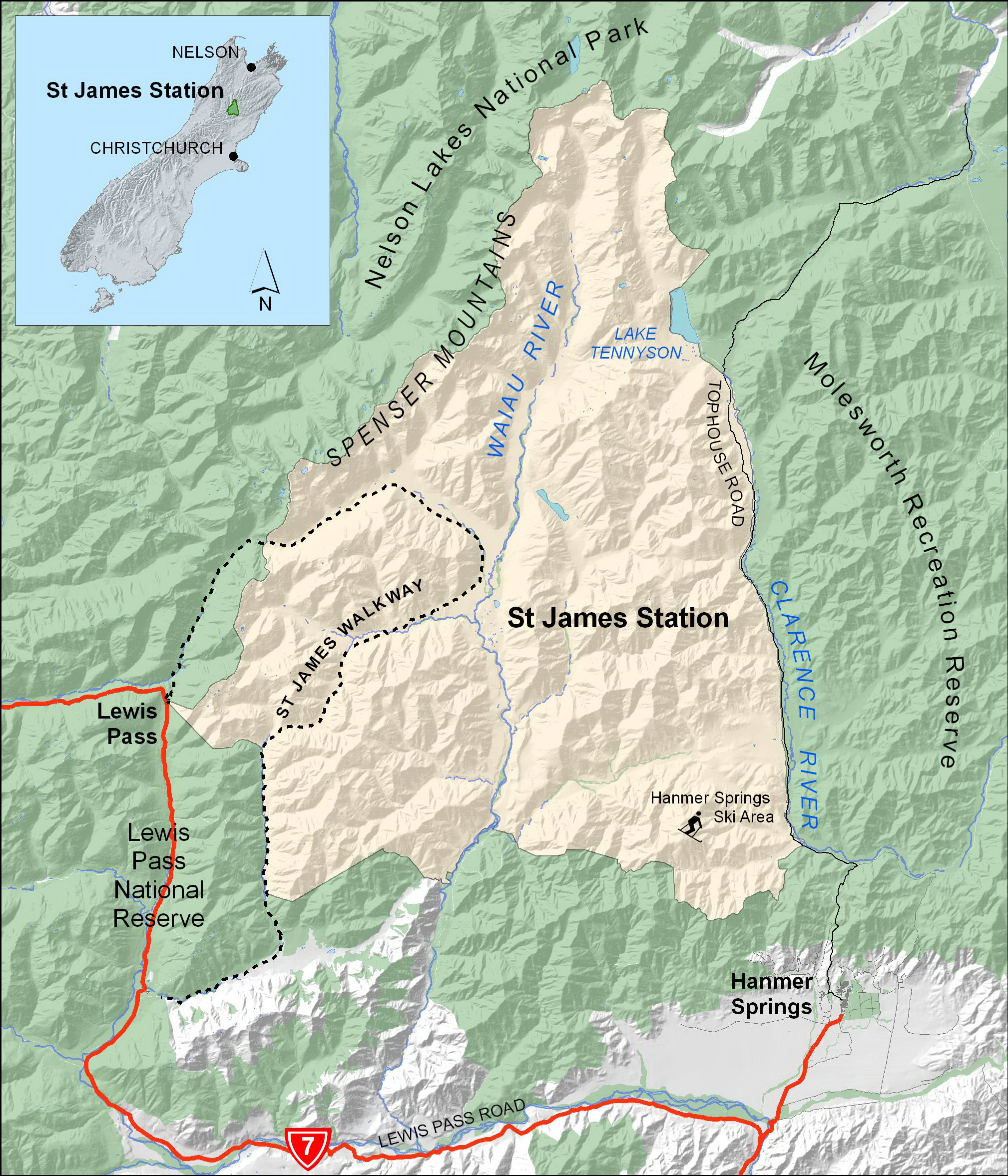 Map of St James Station, published by the Department of Conservation in 2008 when the Crown bought St James Station in 2008. Published under "Crown Copyright 2008 (Dept of Conservation)", which is Creative Commons Attribution 3.0 New Zealand Licence as per